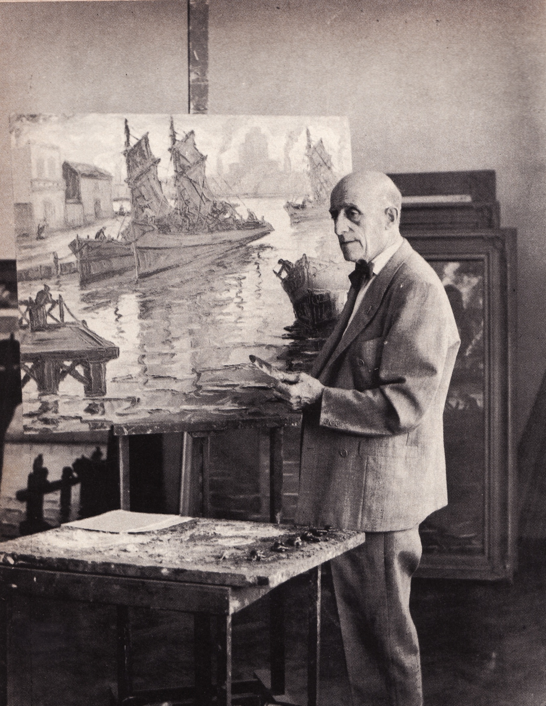 Benito Quinquela Martín (1890-1977) in his workshop . Painter. La Boca. Argentina.